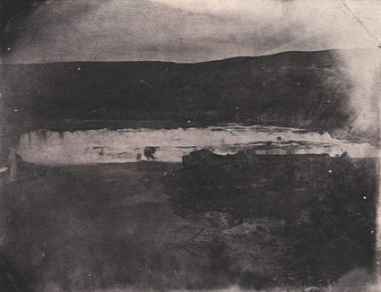 Photograph of the Great Falls of the Missouri — by James D. Hutton in 1859. During the Raynolds Expedition.